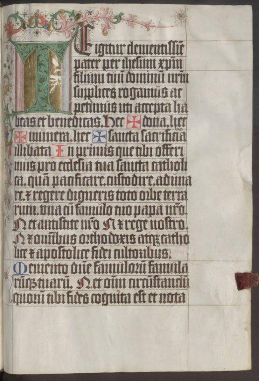 One of cards from Missale secundum notulam dominorum Teutonicorum, with initial of letter "T". From Biblioteka Gdańska PAN, Poland.